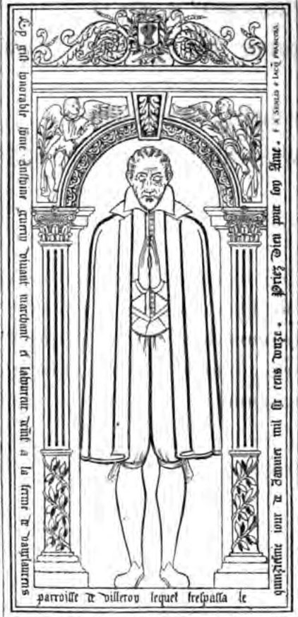 Tombstone located in the church Saint-Germain de Villeron, Val-d'Oise, France. Tombstone of Anthoine Guérin, marchand-laboureur à Vaulerent, died in 1616. Drawing by Ferdinand de Guilhermy, Inscriptions de la France du Ve siècle au XVIIIe, tome 5, p 622